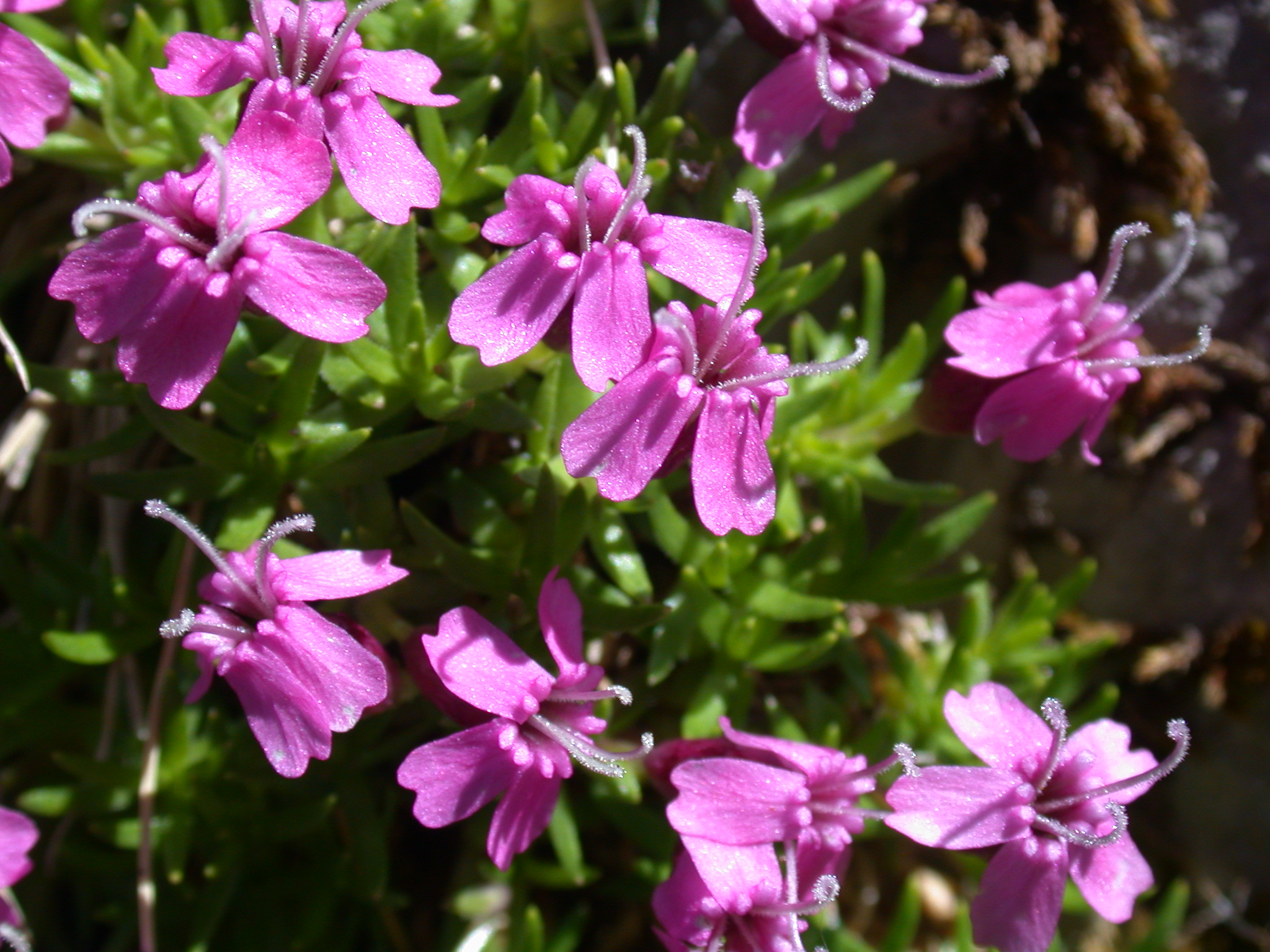 Silene acaulis (Caryophyllaceae); Hinteres Lauterbrunnental, Canton of Bern, Switzerland